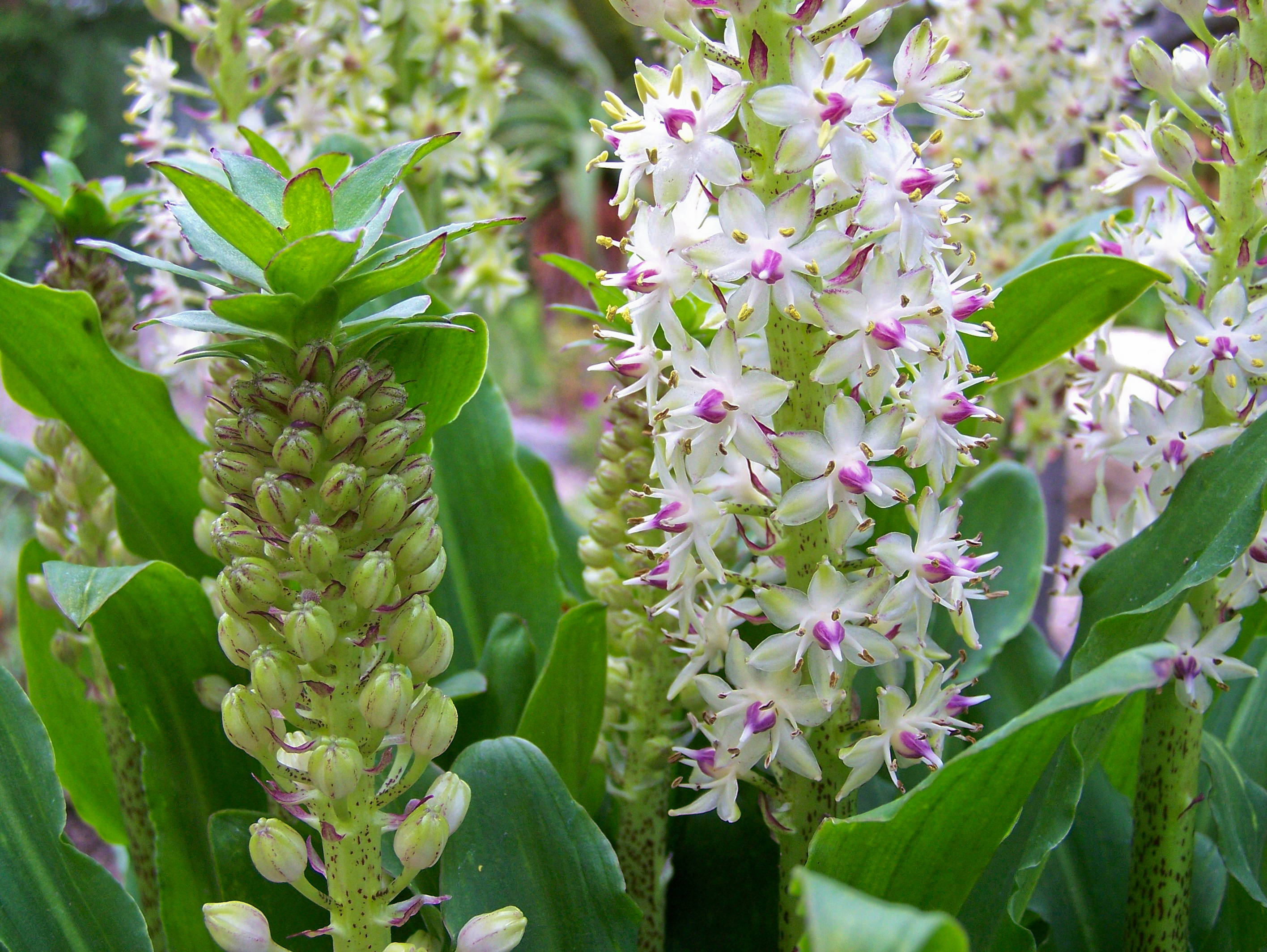 Species: Eucomis bicolor